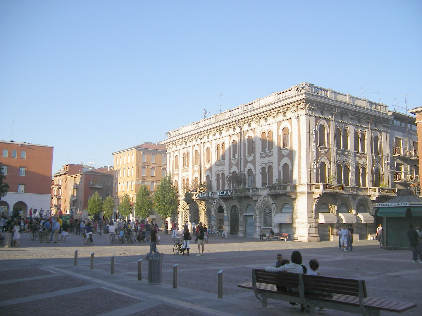 Fidenza, Giuseppe Garibaldi square